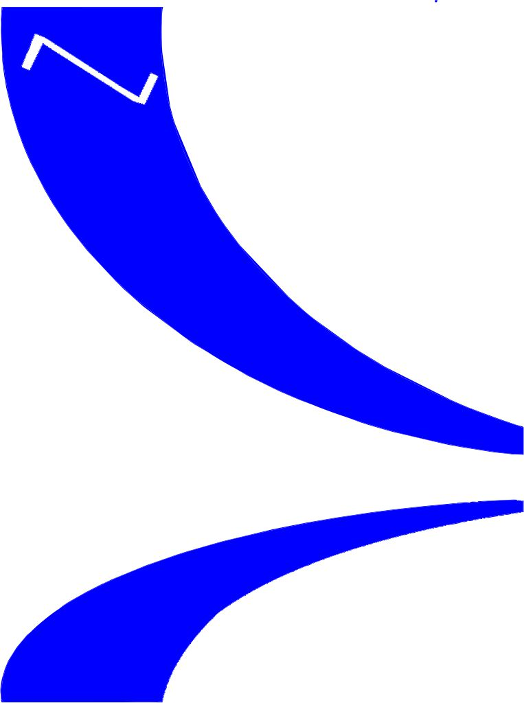 Sym-op-is logo